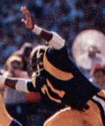 Los Angeles Rams defensive end Reggie Doss pictured in a defensive play during a November 2, 1980 home game against the New Orleans Saints.